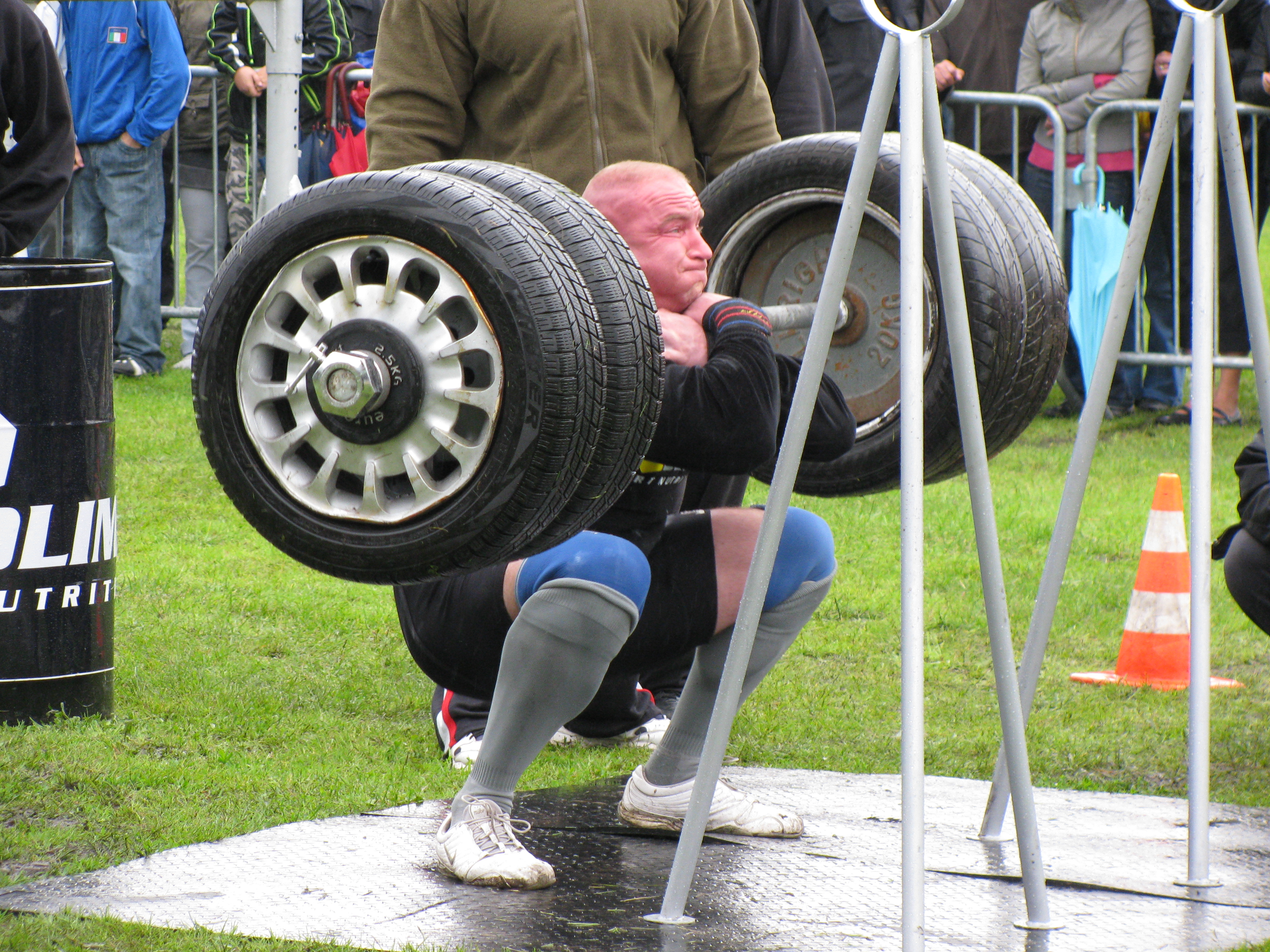 Strongman exercise: Front Squat Lift.